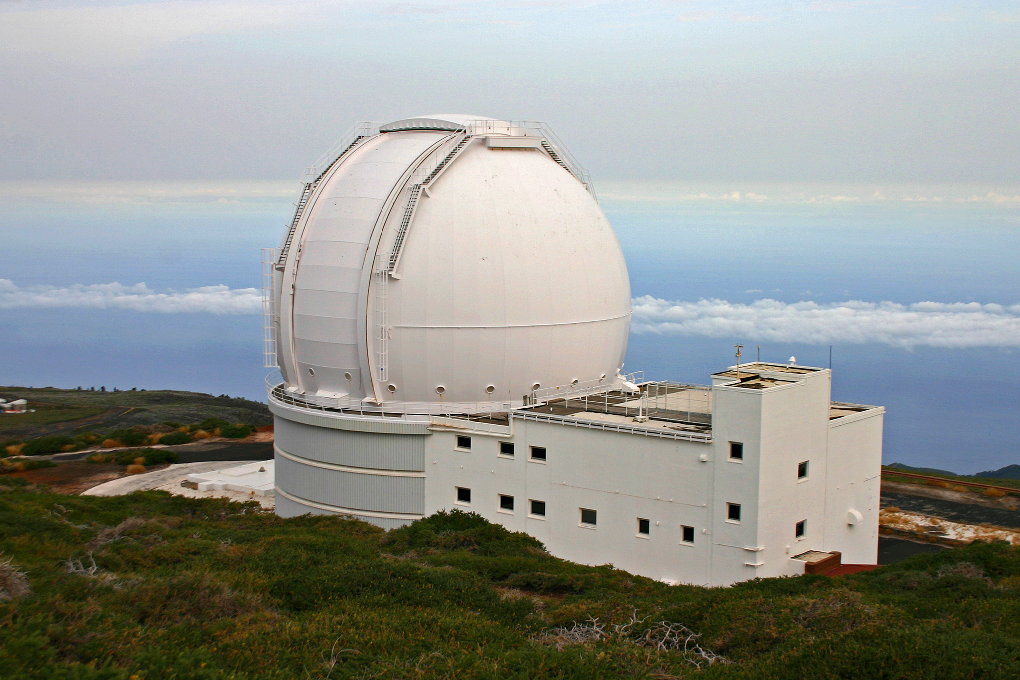 Dome of the William Herschel Telescope at the Roque de los Muchachos Observatory, La Palma.